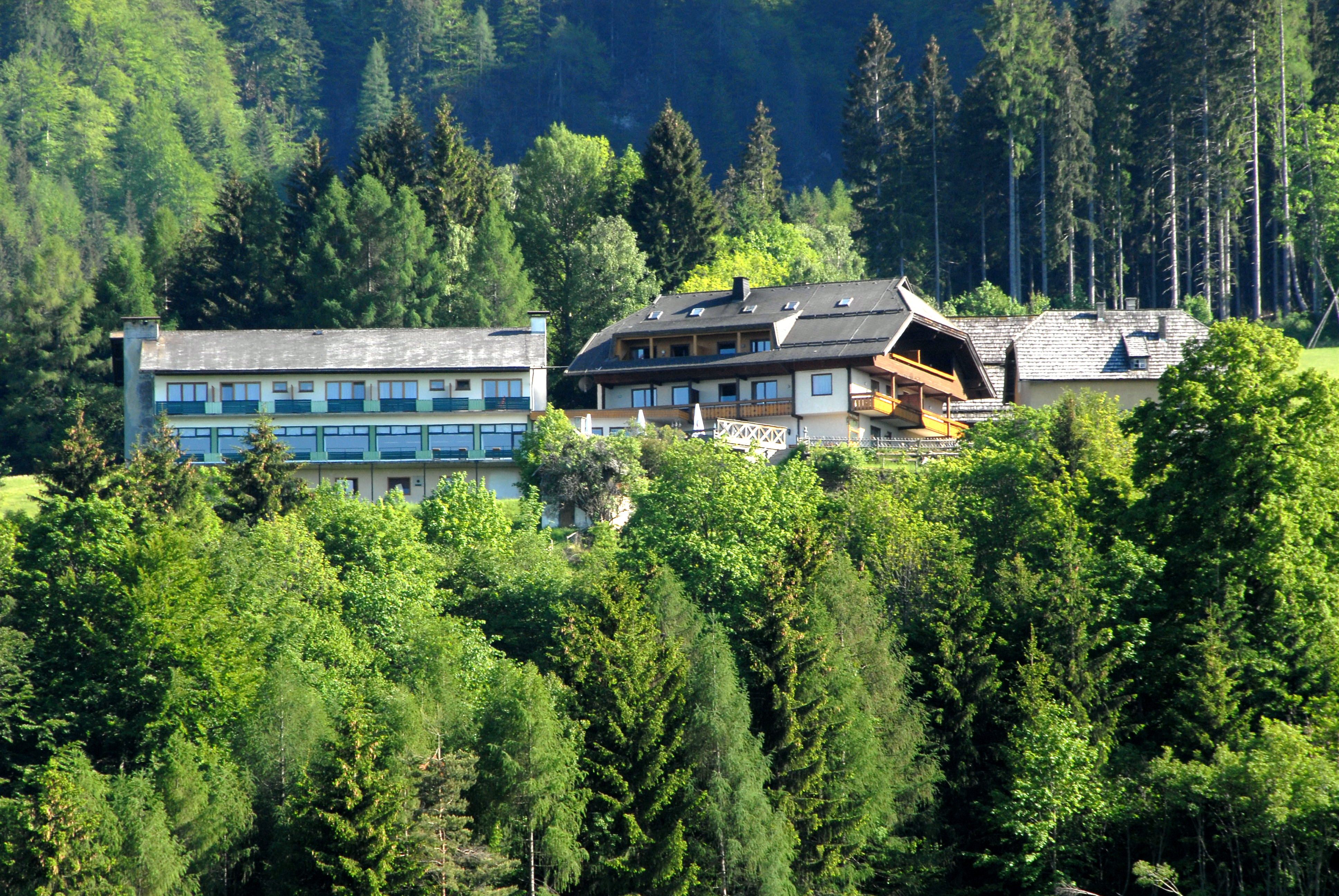 Baumgartnerhöhe in Altfinkenstein, market town Finkenstein am Faaker See, district Villach Land, Carinthia, Austria, EU